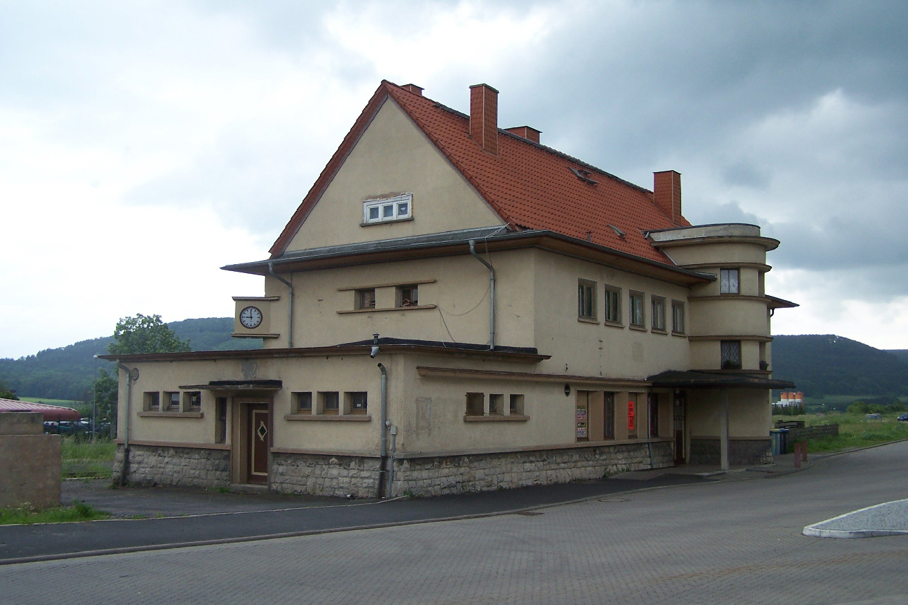 The former railroad station in Dermbach.